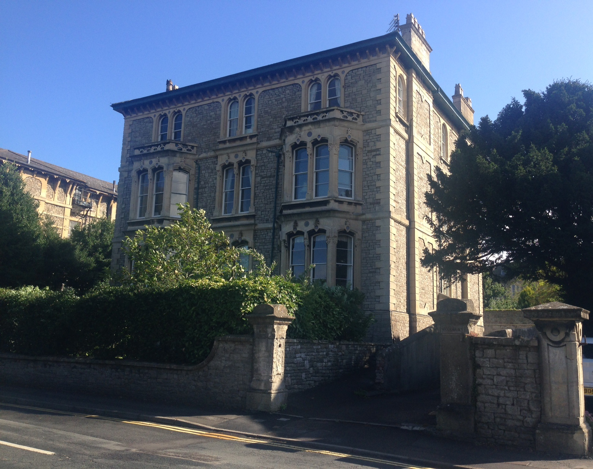 Woodbury of Clevedon, Somerset, Sep 2013